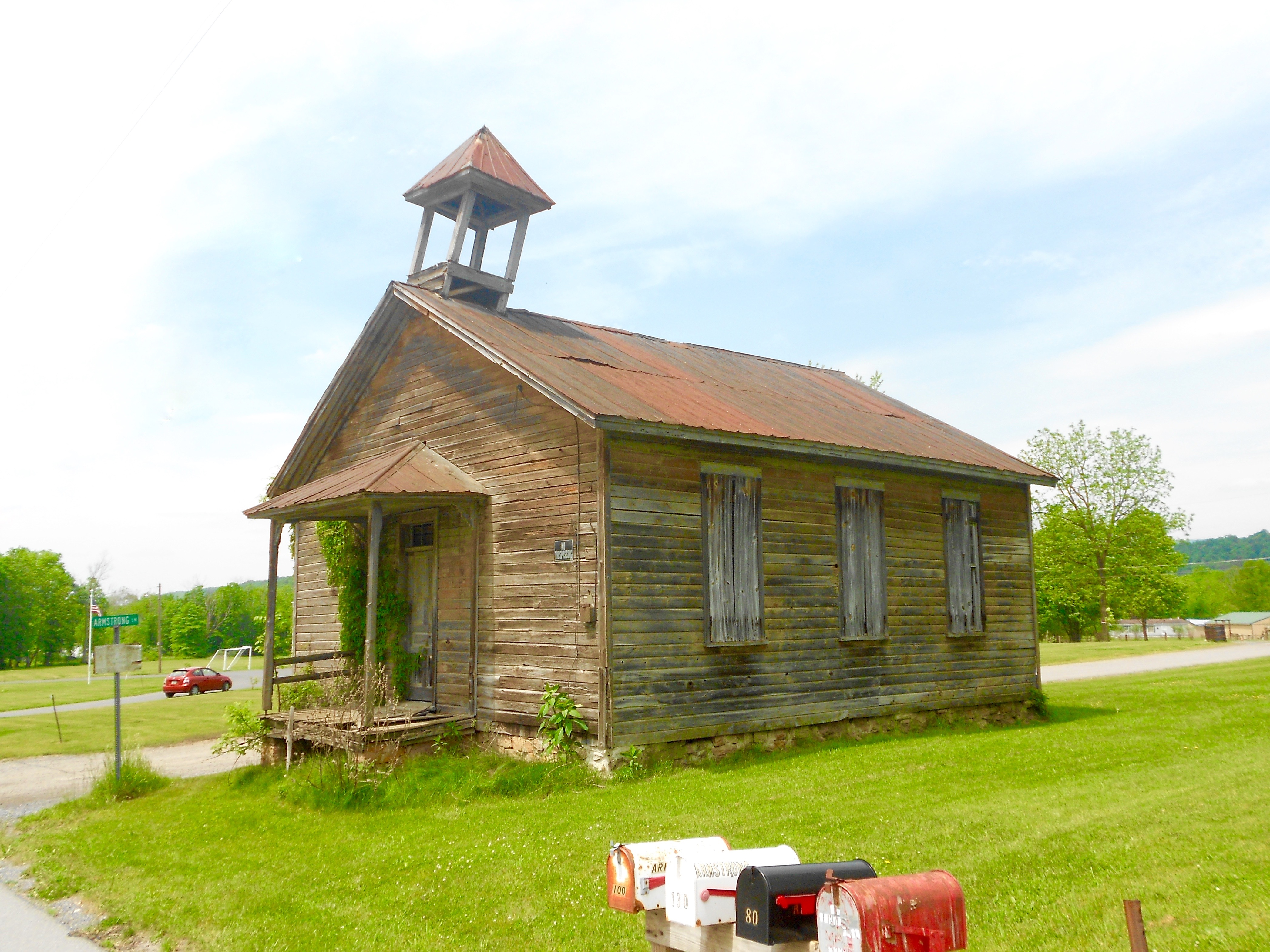 Old school on Armstrong Lane and Back Maitland Road in Decatur Township, Mifflin County, Pennsylvania